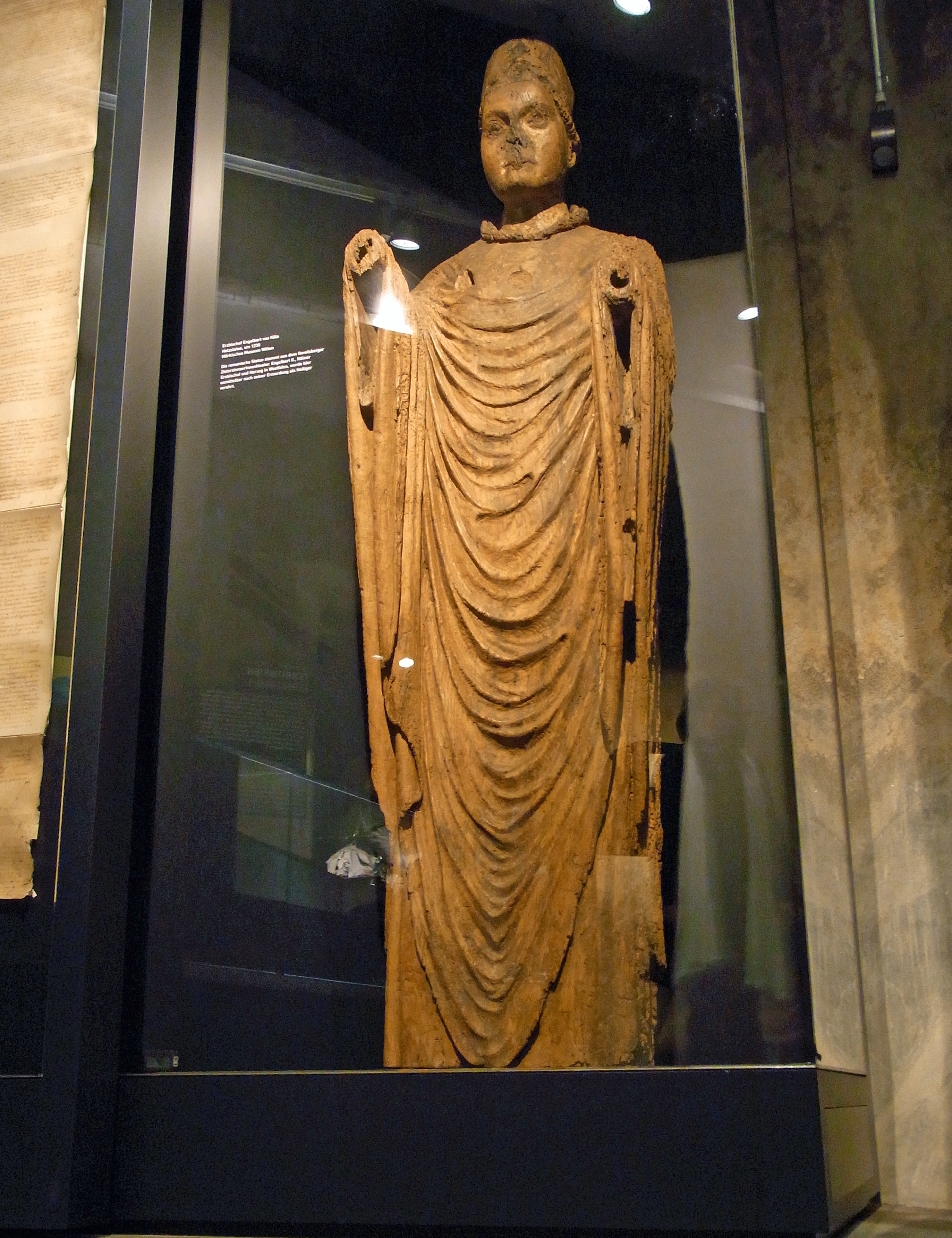 Ruhr Museum at Zollverein Coal Mine Industrial Complex